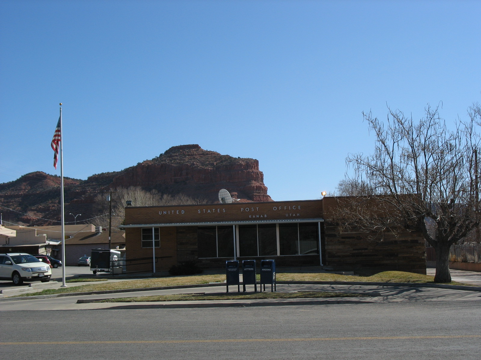 current post office in Kanab Utah